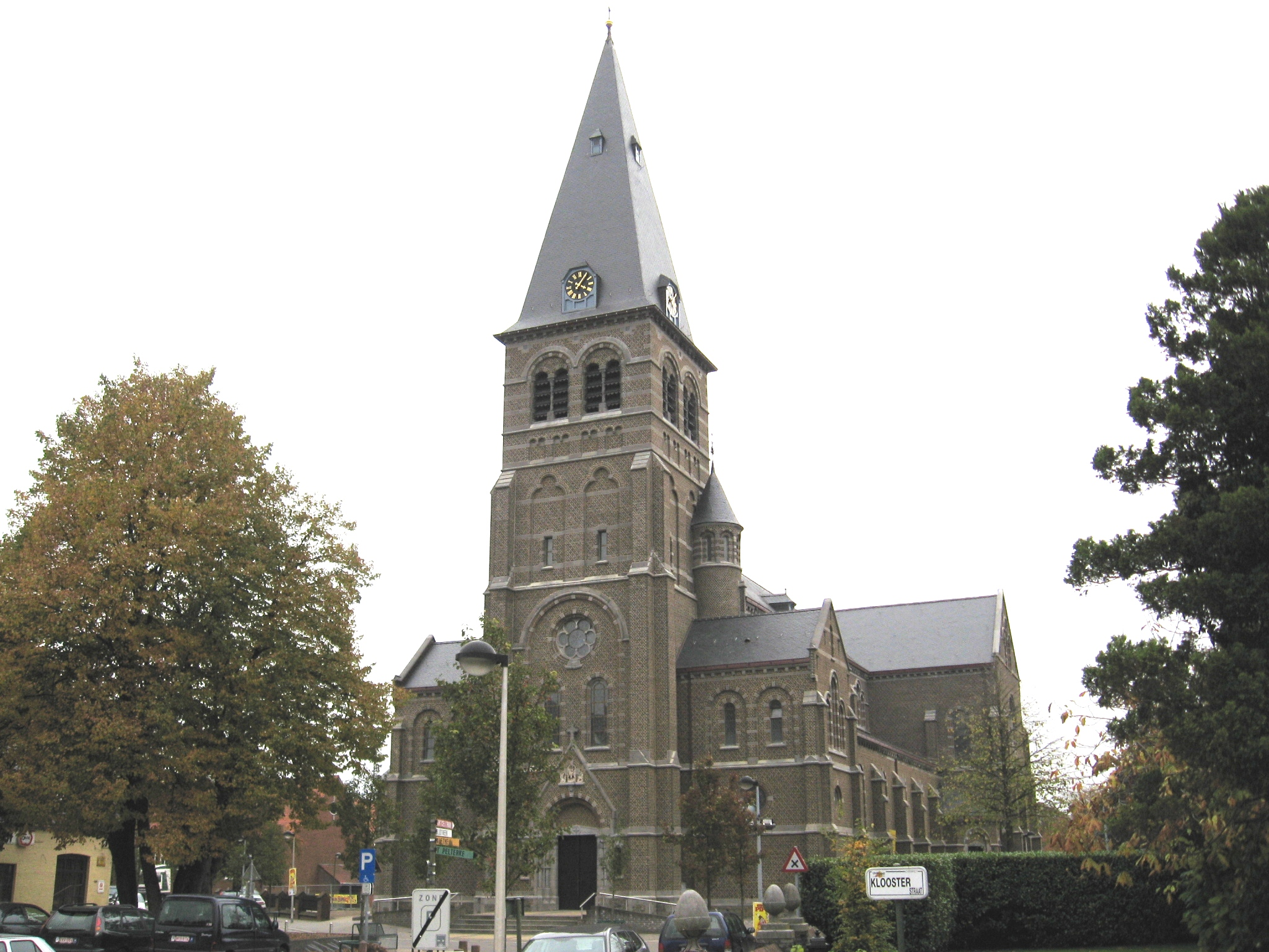 Church of Saint Martin in Overpelt, Limburg, Belgium